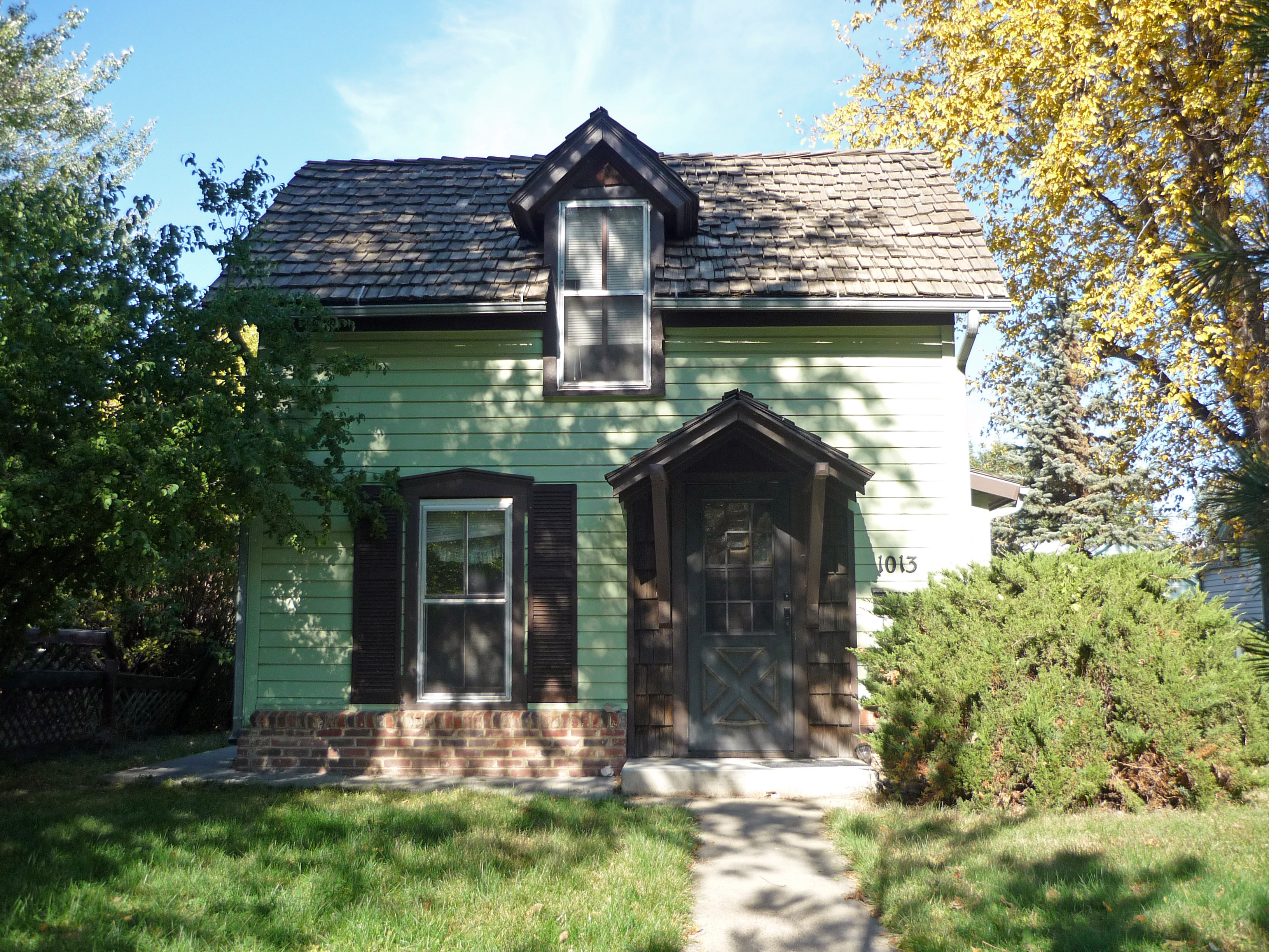 National Register of Historic Places building in Miles City, Montana